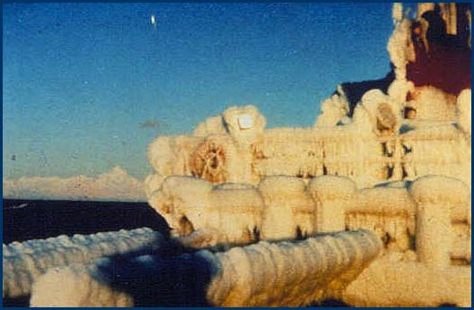 Iced US Navy ship